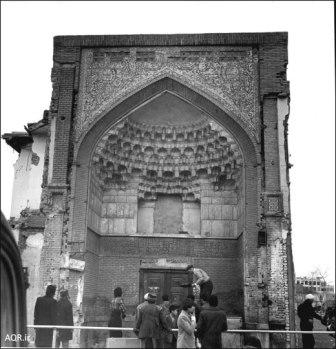 The Madrasa was built before 1672-1083 A.H. and it used to be called “Madrasa Somaieh”. The Madrasa was demolished in 1975, because of expansion of the surrounding area of Imam Reza shrine.